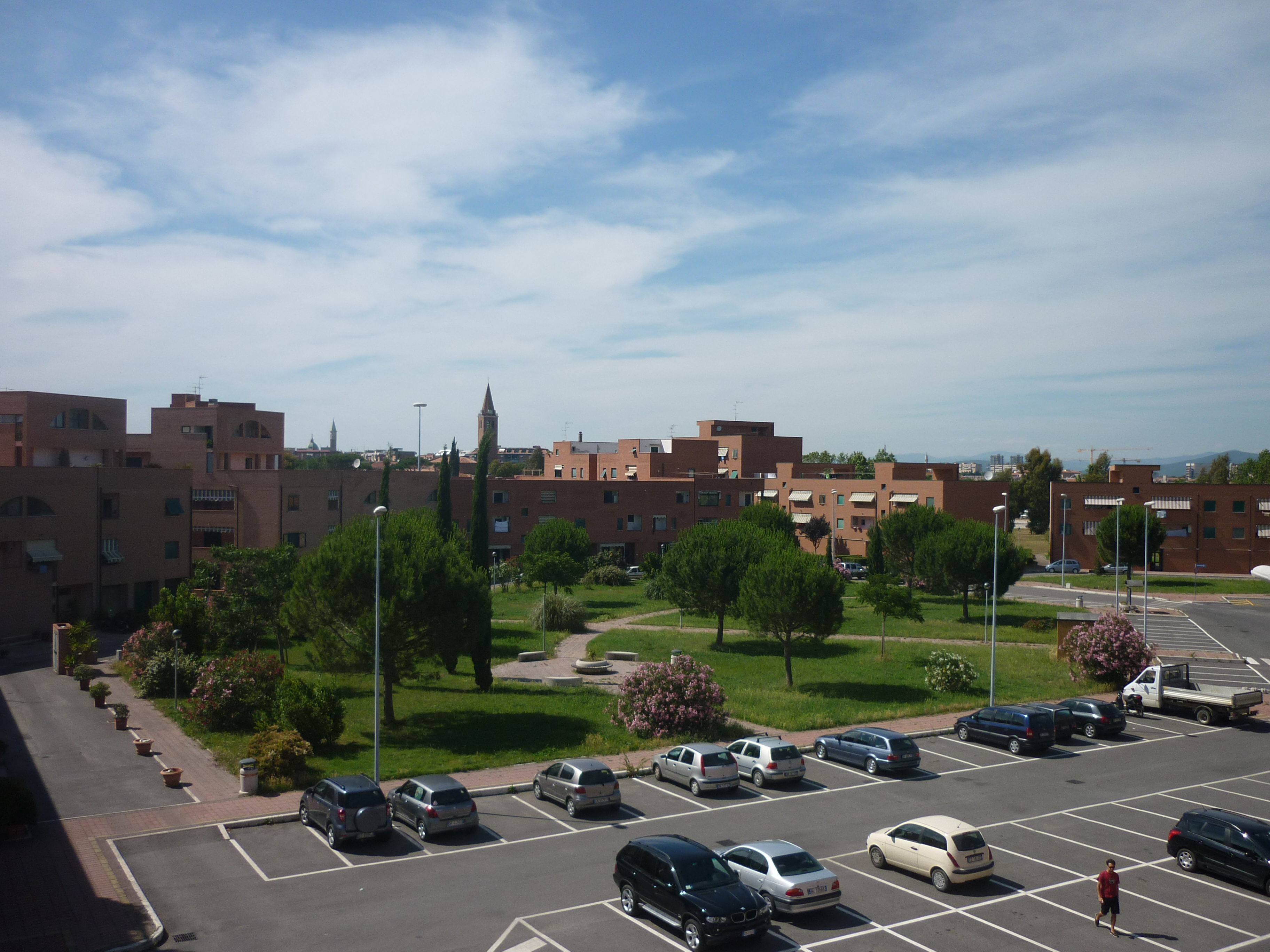 Alberino, Grosseto